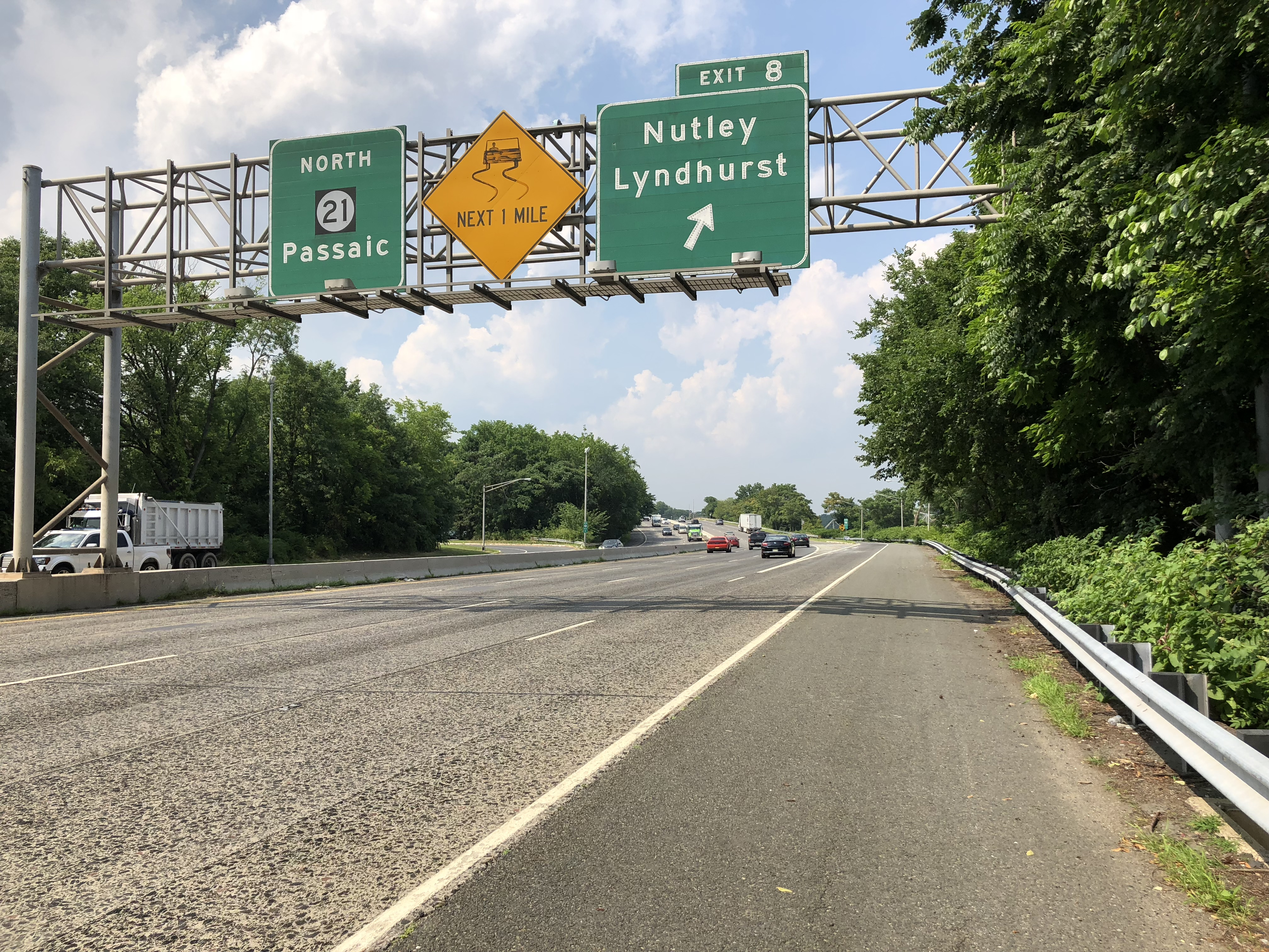 View north along New Jersey State Route 21 (McCarter Highway) at Exit 8 (Nutley, Lyndhurst) in Nutley Township, Essex County, New Jersey